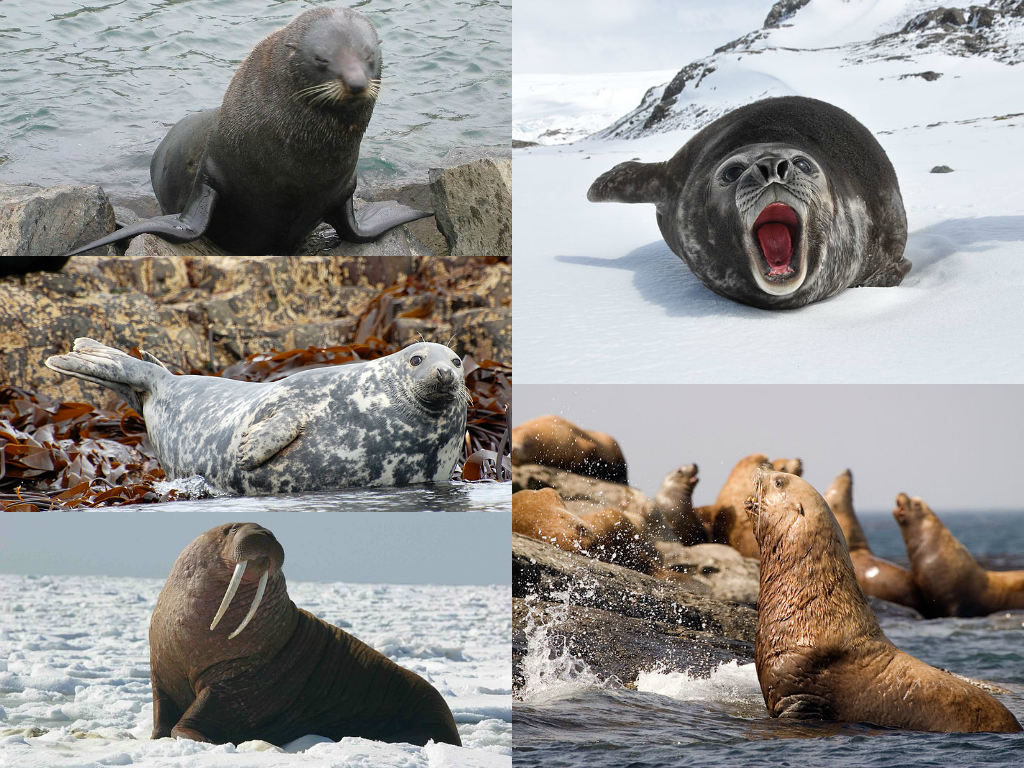 New Zealand fur seal (Arctocephalus forsteri) (upper left), Southern elephant seal (Mirounga leonina) (upper right), Grey seal (Halichoerus grypus) (middle left), Steller sea lion (Eumetopias jubatus) (lower right) and Walrus (Odobenus rosmarus) (lower left)